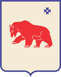 Kudymkar, coat of arms